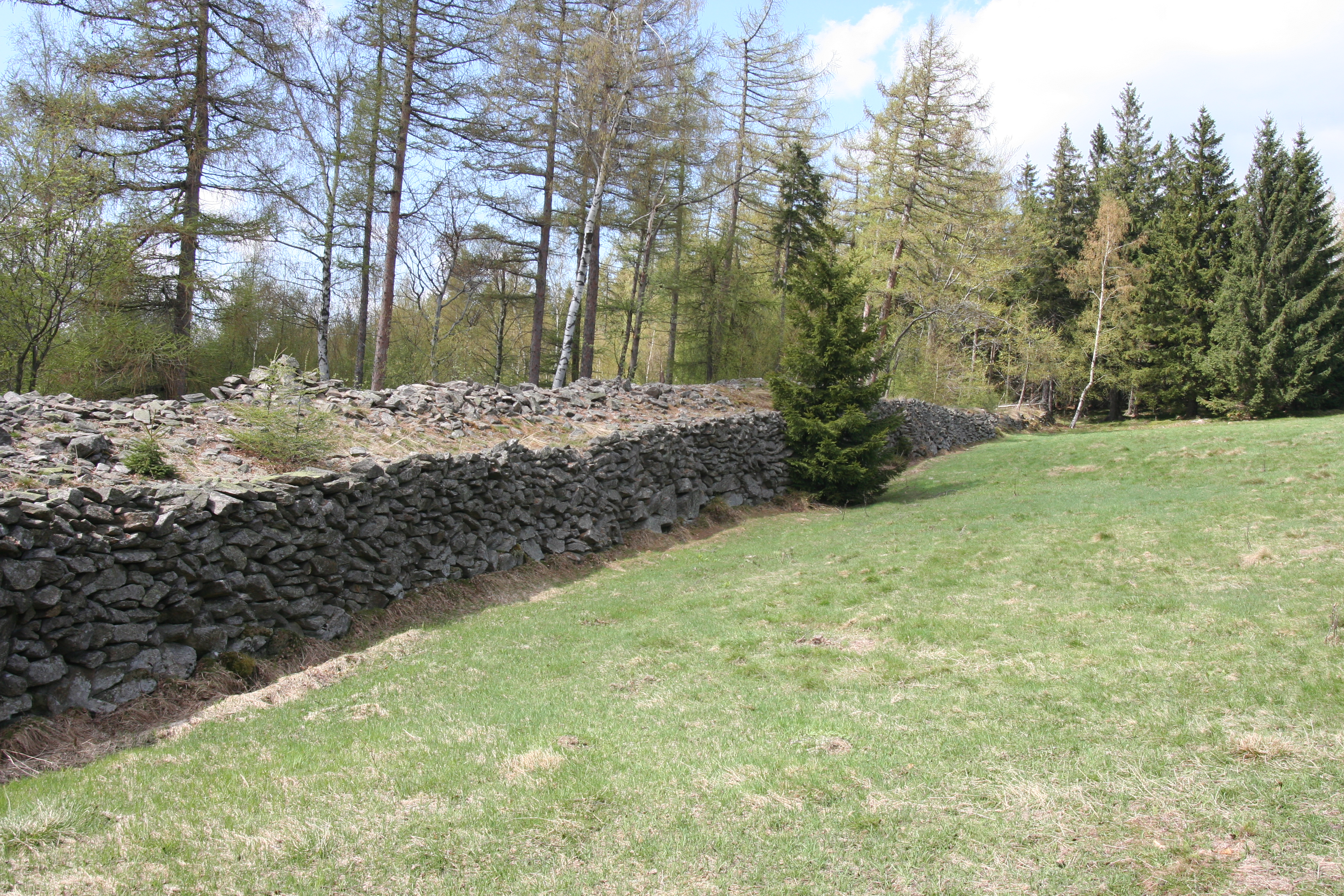 Stone Wall, in Kopaniec, Lower Silesia, Poland.